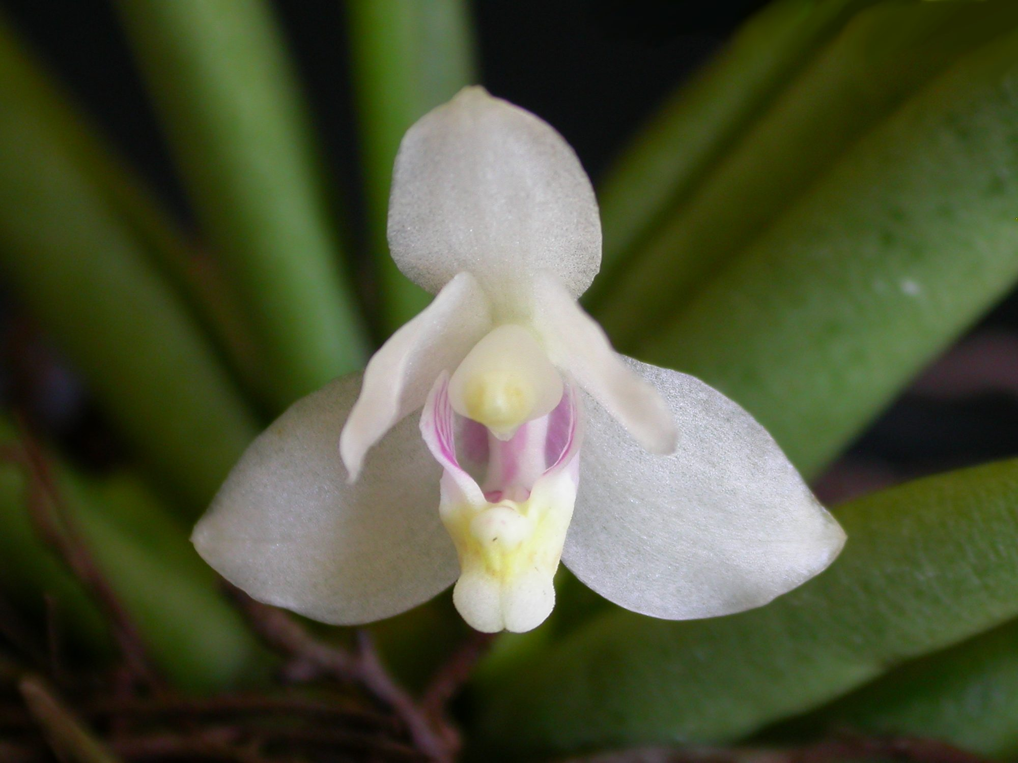 Pteroceras semiteretifolium